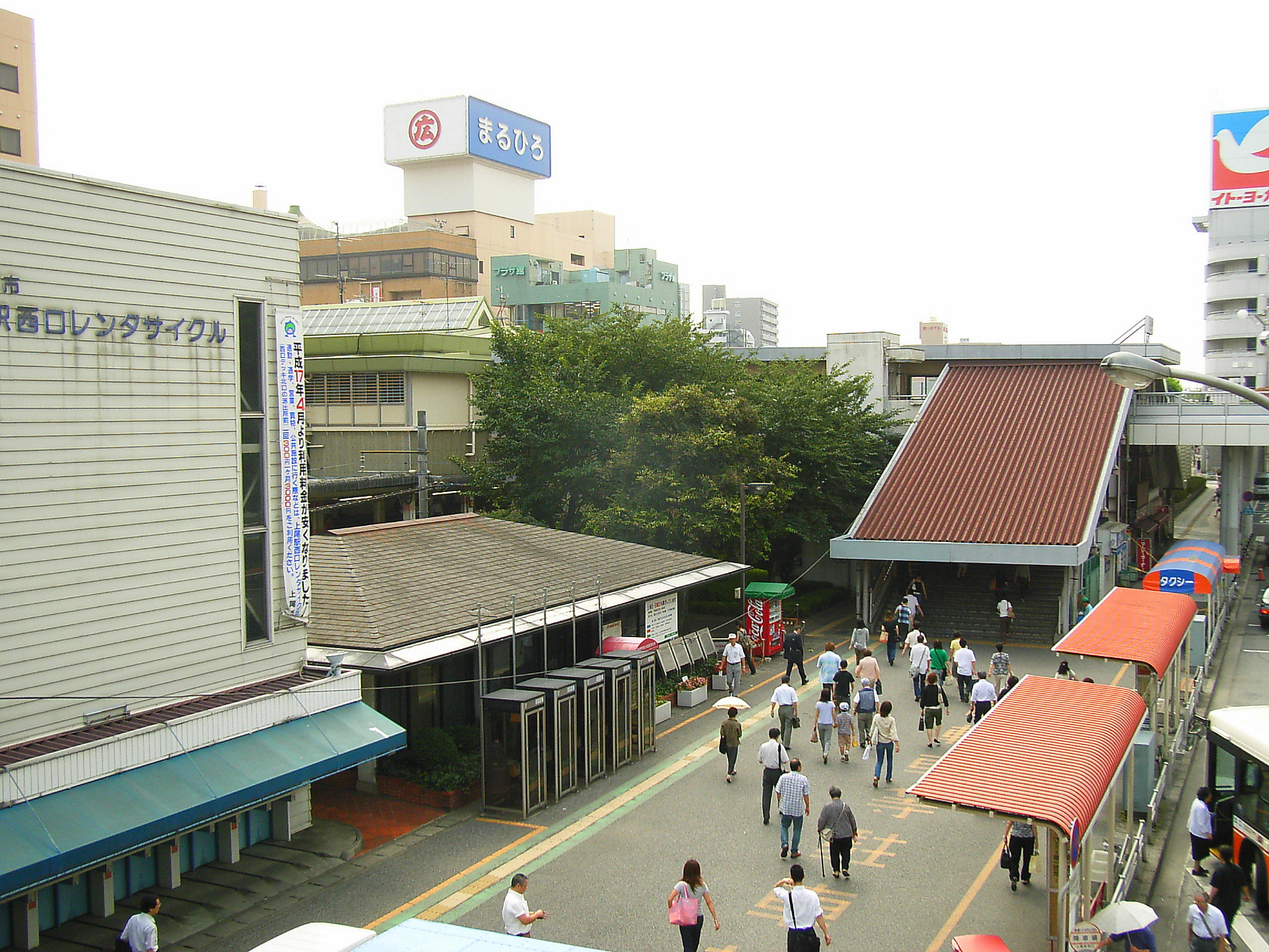 The west entrance of the Ageo Station. Ageo, Saitama prefecture, Japan.